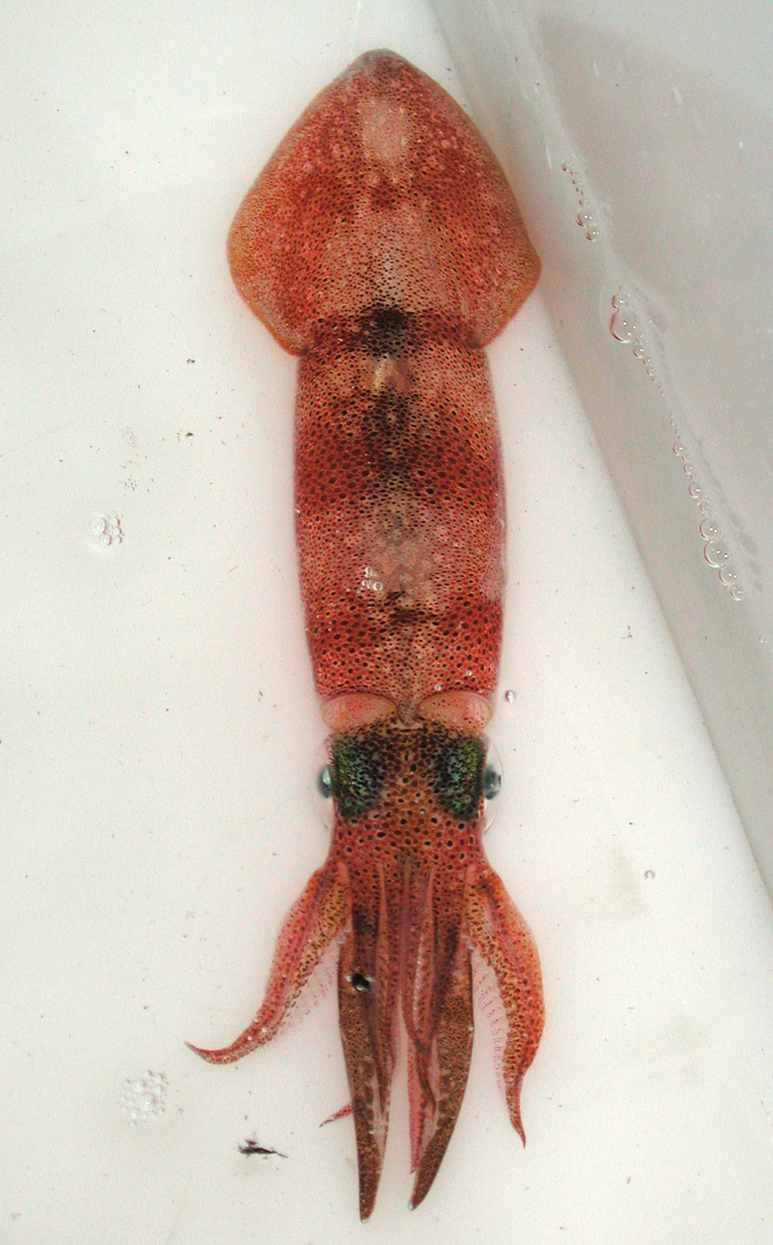 Slender Inshore Squid or Arrow Squid (Loligo plei). Specimen is nearly 61 centimetres (2 feet) in total length.